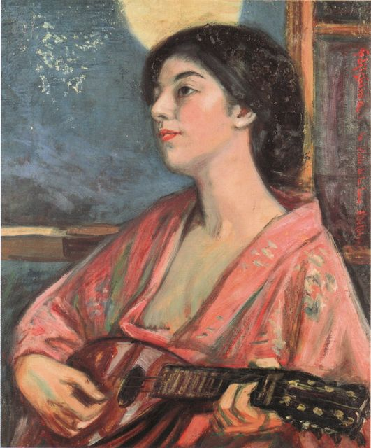 Woman Playing a Mandolin, by Fujishima Takeji